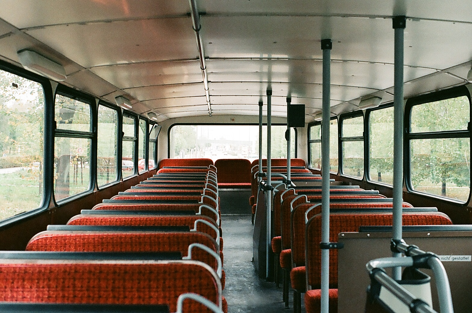 View towards the back of the interior of the upper deck of BVG Bus SD81 (MAN SD200) Number 1781.